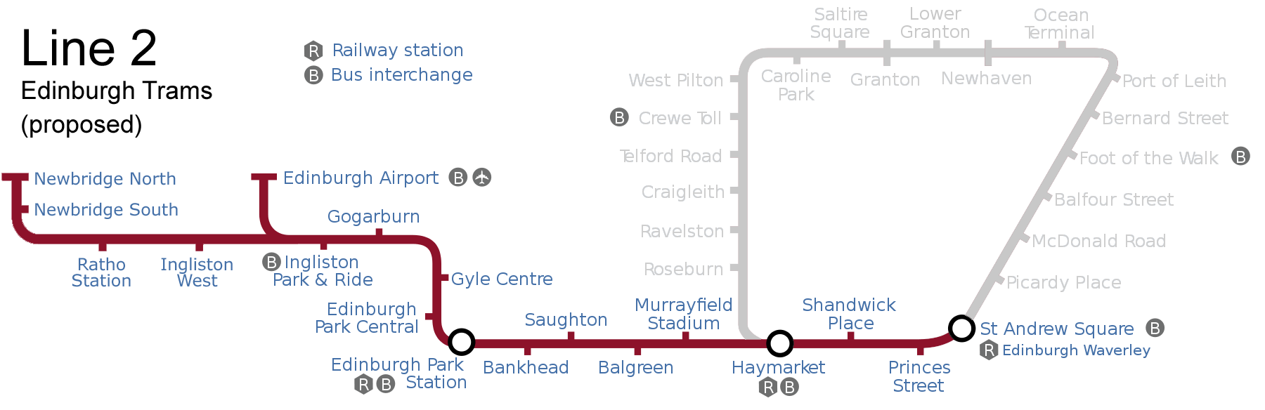 A map showing the extent of the track and stops of the Edinburgh Trams system which actually gained parliamentary approval in 2006 (not shown is the track needed for Line 3, which was also proposed but not approved). Highlighted here is 'Line 1', while in the background is 'Line 2', which would have operated as a continuous loop, i.e. sharing some of the track used by Line 1. After various revisions and cancellations, the only part of the track that was eventually built was the section from the airport to York Place (between St Andrew Square and Picardy Place), which runs as a single line (opened in 2014).